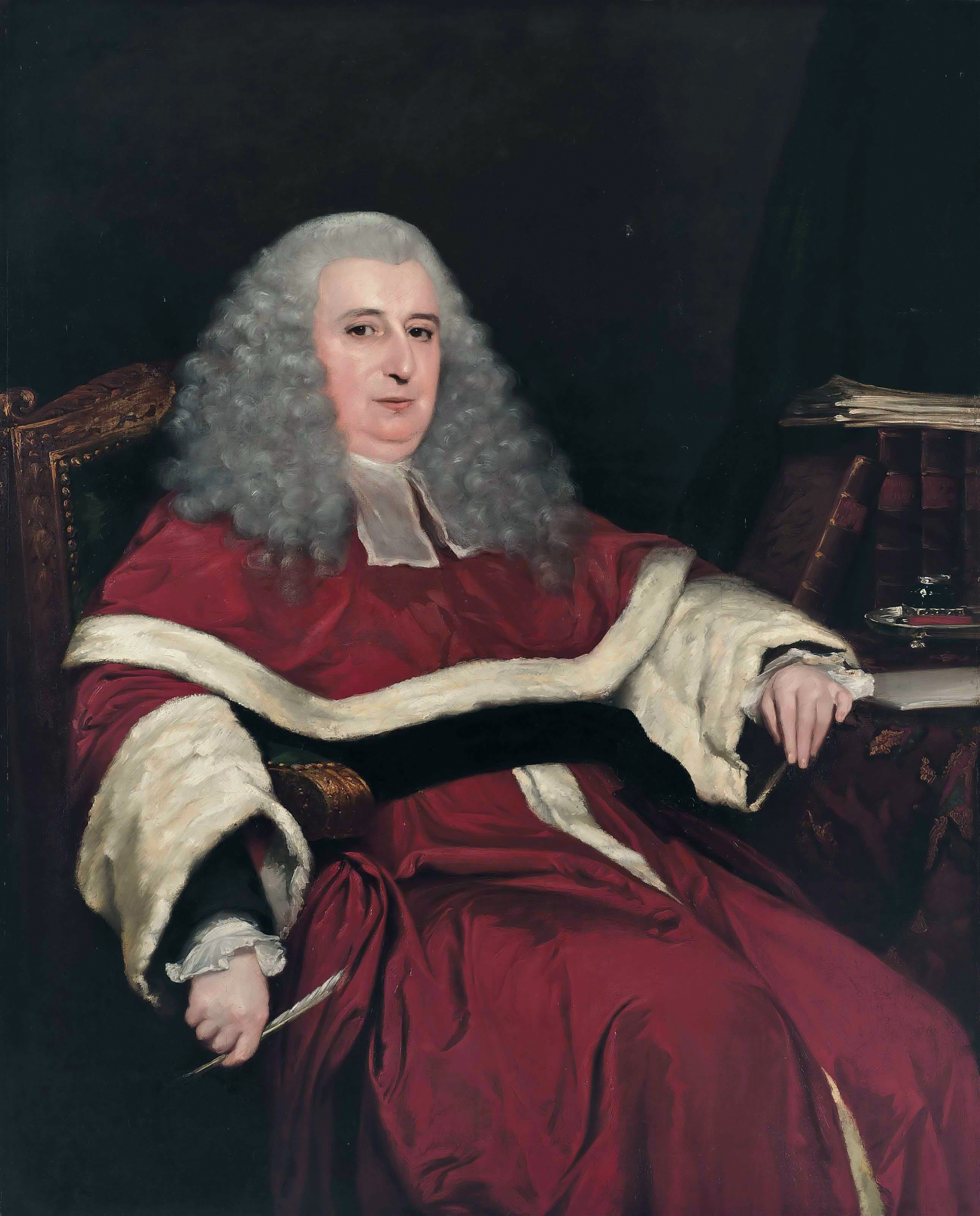 John Hyde (c.1737–1796), Judge of the Supreme Court, Bengal oil on canvas 127.2 x 101.2 cm